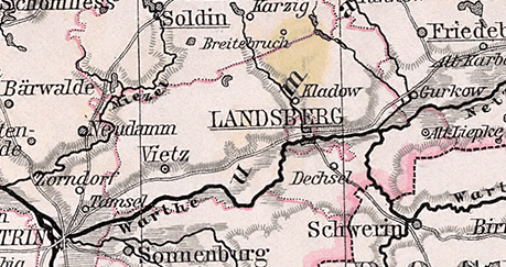 Detail from a map of Brandenburg.